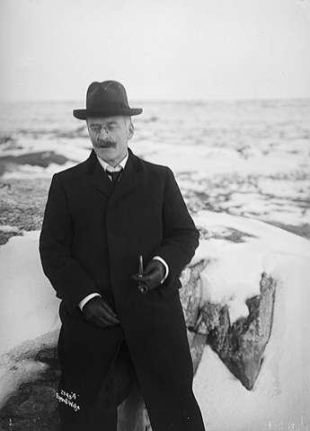 Knut Hamsun, image by Anders Beer Wilse. "Knut Hamsun on beach".